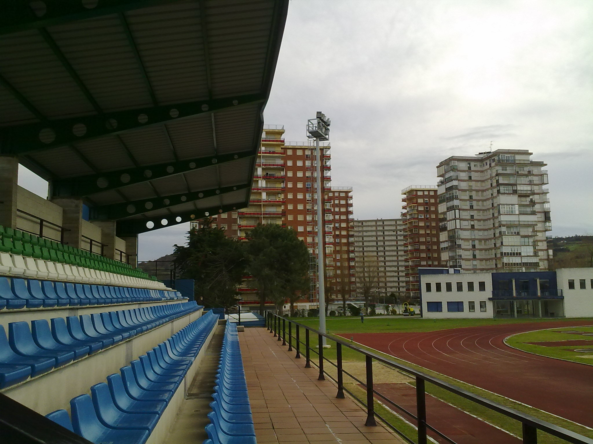 estadio olimpico de laredo